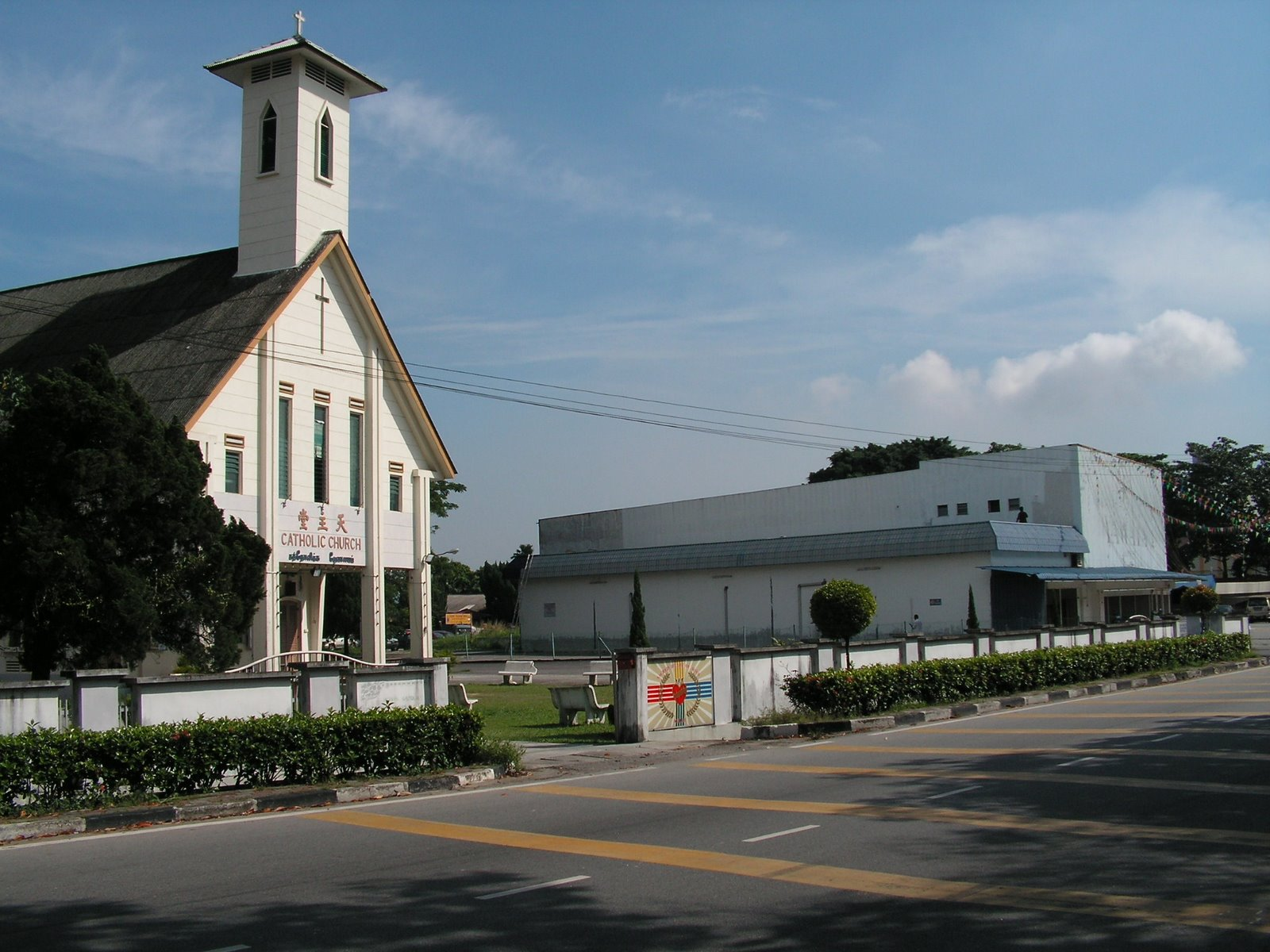 Description: Kulim Source: self-made Author : Jimmy Tan